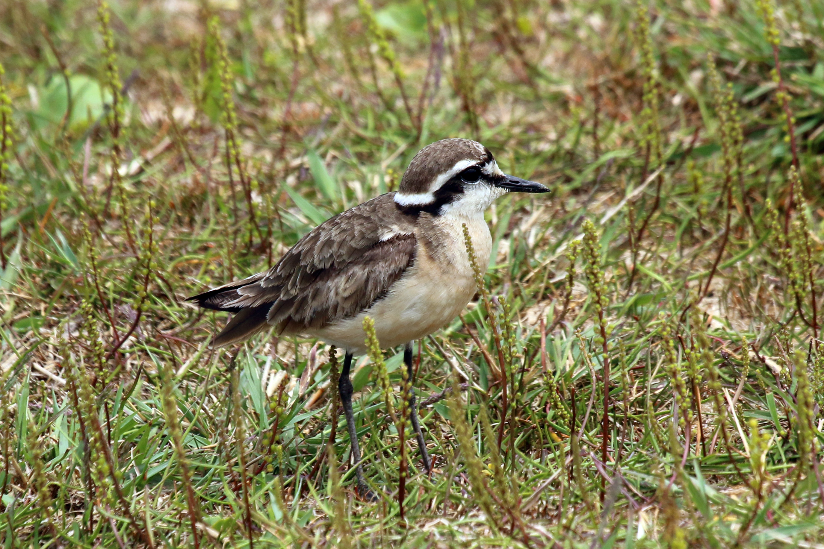 Kittlitz's plover (Charadrius pecuarius), iSimangaliso Wetland Park, KwaZulu Natal, South Africa